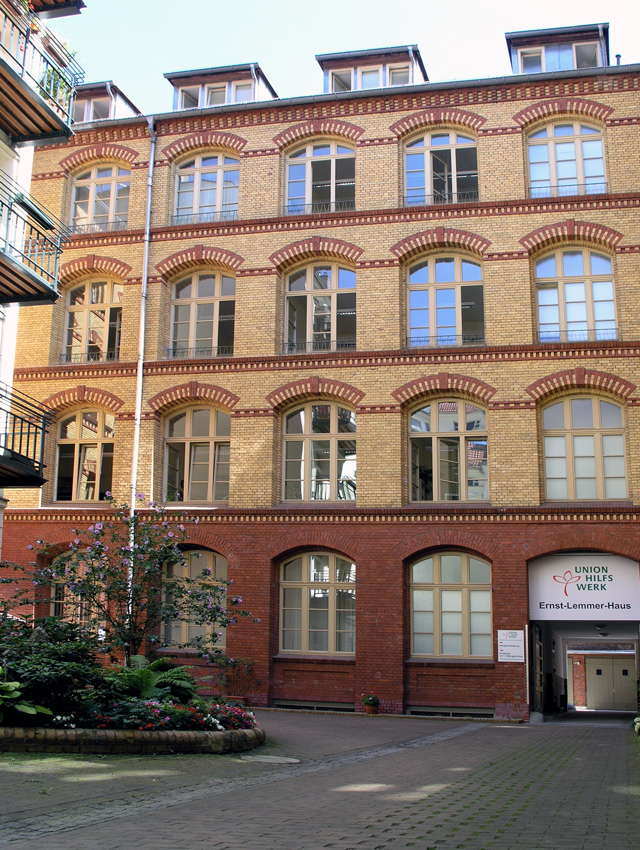 Ernst-Lemmer-Haus in Friedrichshain/Berlin, Germany